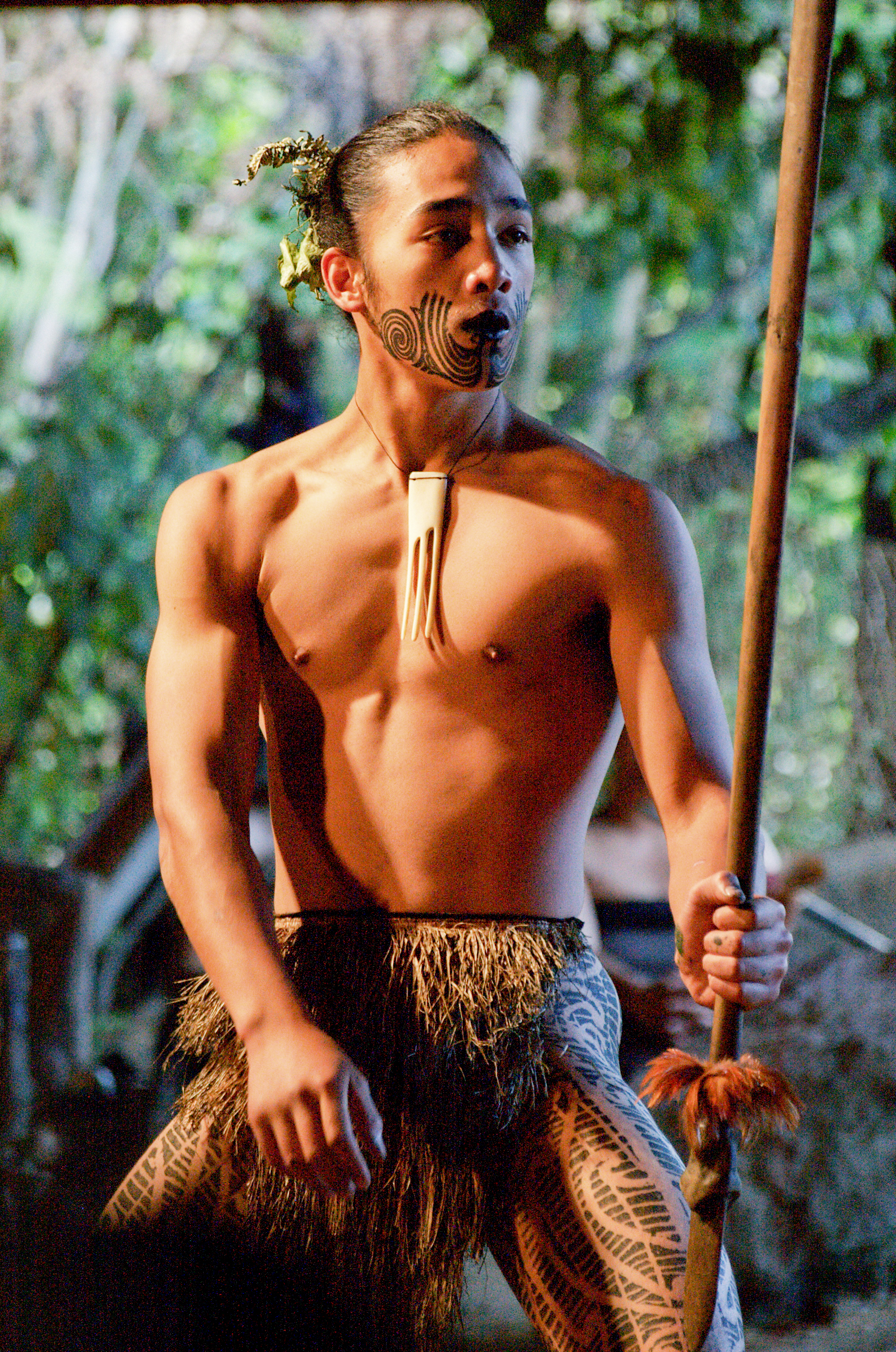 Young Maori man performing in a kapahaka group. Apparently (based on Flickr tags) taken during a Maori dance troupe event in Rotorua.